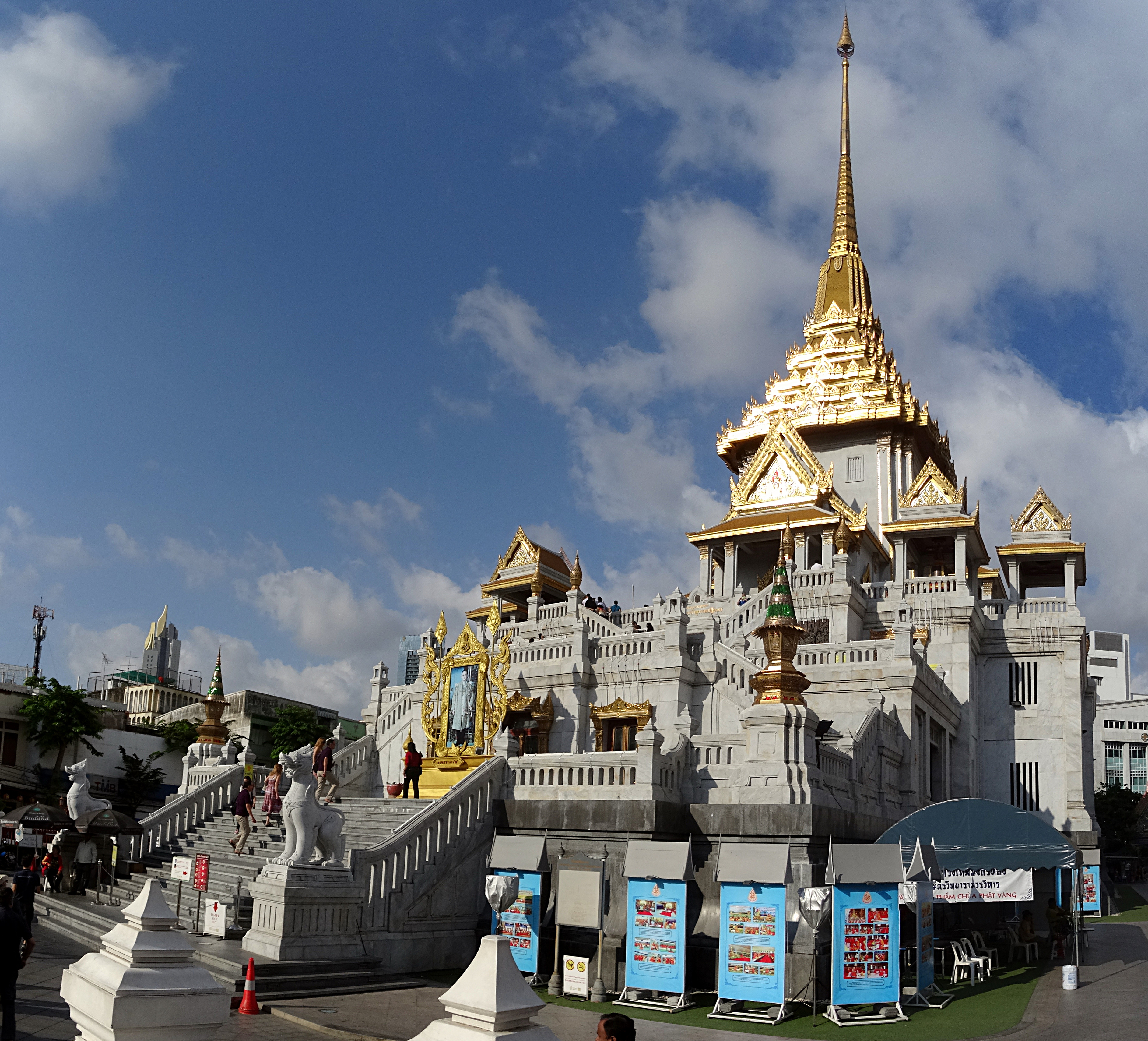 Chinese Temple of the Golden Buddha (Wat Traimit) in Bangkok